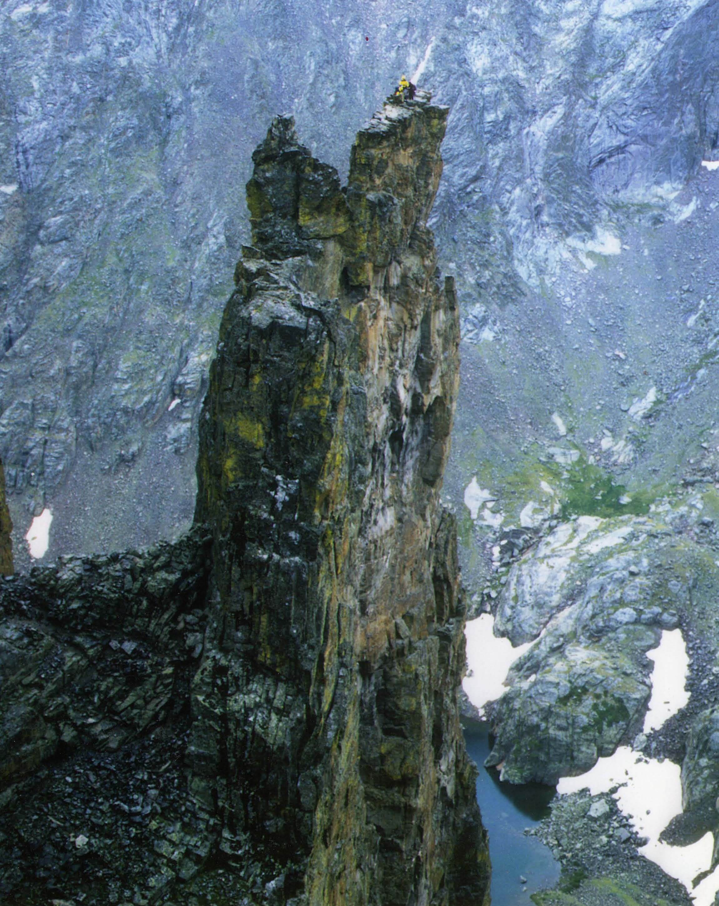 Photograph of Petit Grepon taken from Sharks Tooth by Joel Nolte. Seen on top are Anthony Flynn, Bryan Flynn, Dan Zaccagni and Bob Chase